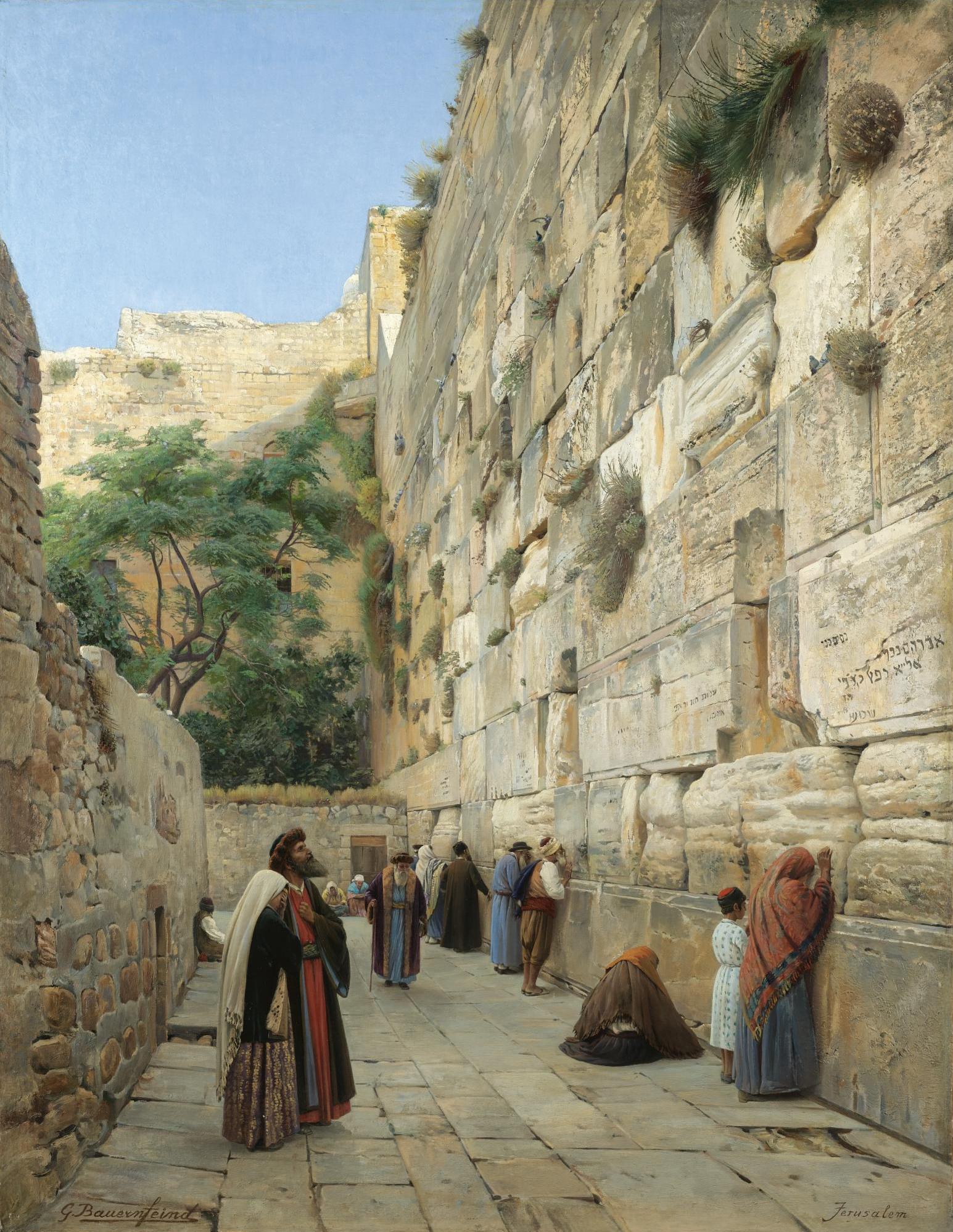 From Sotheby's: An awe-inspiring rendering of one of the most iconic architectural sites of the Holy Land, Bauernfeind's painting of the Wailing Wall belongs to a series of large-scale oils of the same subject that form the artistic centrepiece of his oeuvre. The artist has drawn upon his fastidious talent as a realist painter, and his first hand observations of Middle Eastern culture, in order to present an image that is historically and archaeologically accurate in execution, and appropriately reverential in tone. It represents the apogee of his understanding of eastern culture. The present work addresses the solemnity of prayer as well as the timelessness of the Wailing Wall, and its continuity with the past. Indeed, the 2000 year old wall which takes up the majority of the canvas is itself a testament to the endurance of religion. Bauernfeind gives the Wall, rather than the worshippers, prominence in his composition. The Wall is bathed in a luminescent, almost supernatural light, adding to the feeling of holiness of the site, and also allowing Bauernfeind to demonstrate his virtuoso ability to paint the changes in texture and subtleties of light across its surface.